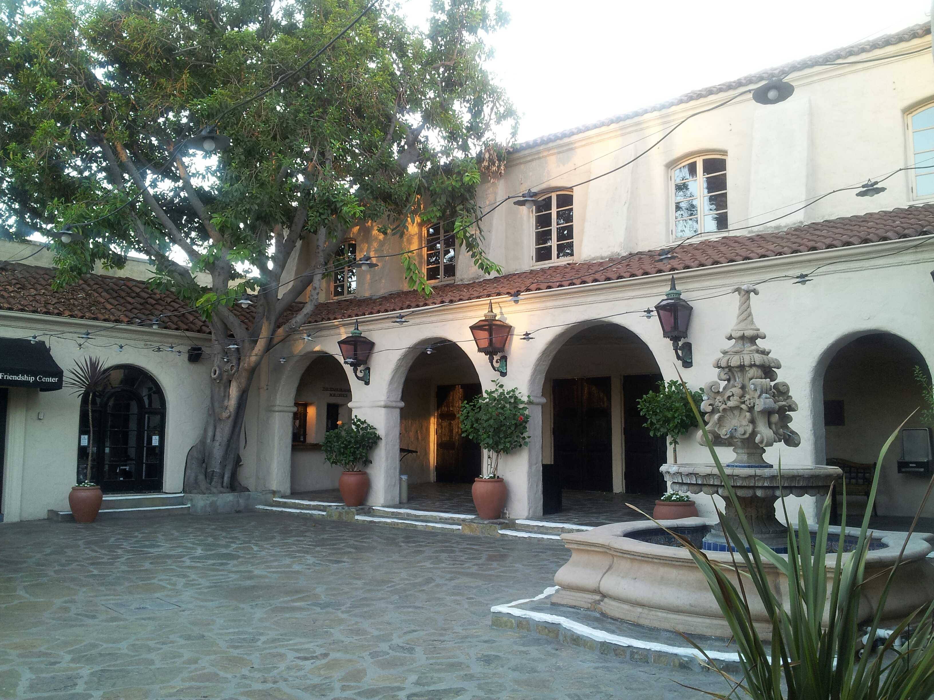 Pasadena Playhouse This photo was uploaded with Wiki Loves Monuments mobile 1.2.1 (Android).